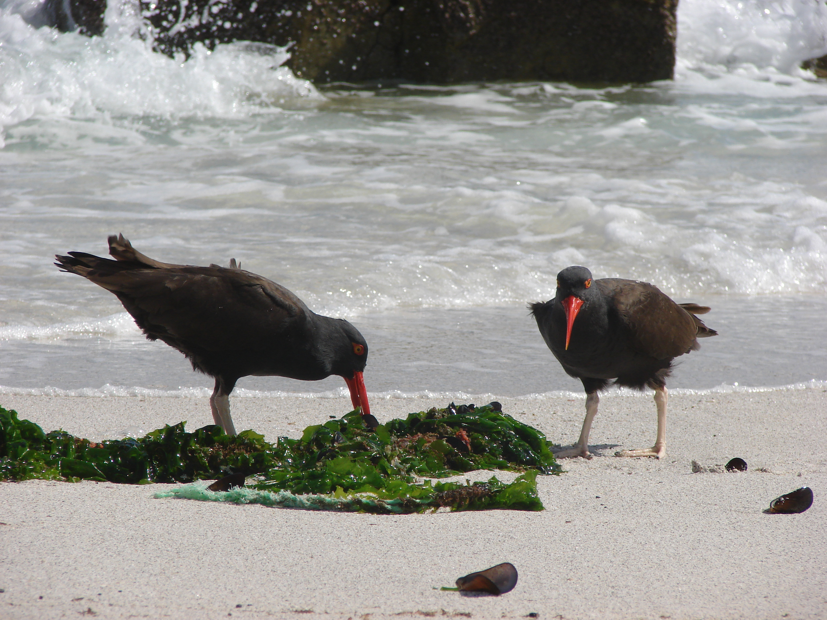 A pair of Blackish Oystercatchers (haematopus ater) feeding on mussels that washed up with some debris on the coast of Bahía Inglesa in Chile. Photo taken with Sony DSC-H2 camera.